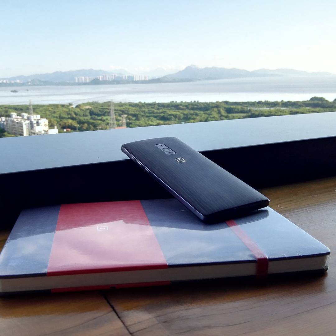 I got to take some pictures of a @oneplustech 2 at their Shenzhen office today. View from terrace is Hong Kong. #oneplus #neversettle #china #shenzhen #BobAndMatInAPAC #android